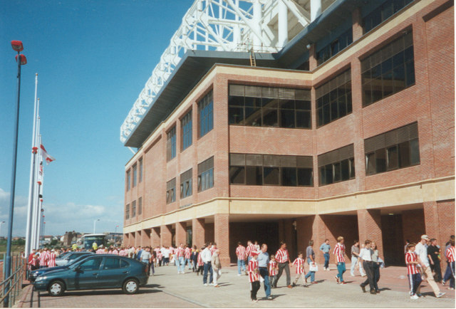 Stadium of Light, near to Sunderland, Great Britain.